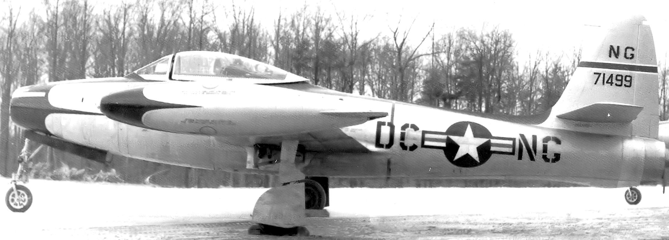 121st Fighter Squadron - Republic F-84C-6-RE Thunderjet 47-1499 about 1950 while with the D.C. Air National Guard. Destroyed (3600 AMS/127 ANG) in midair collision and crashed 37 mi WSW of Gila Bend, AZ Nov 16, 1951.